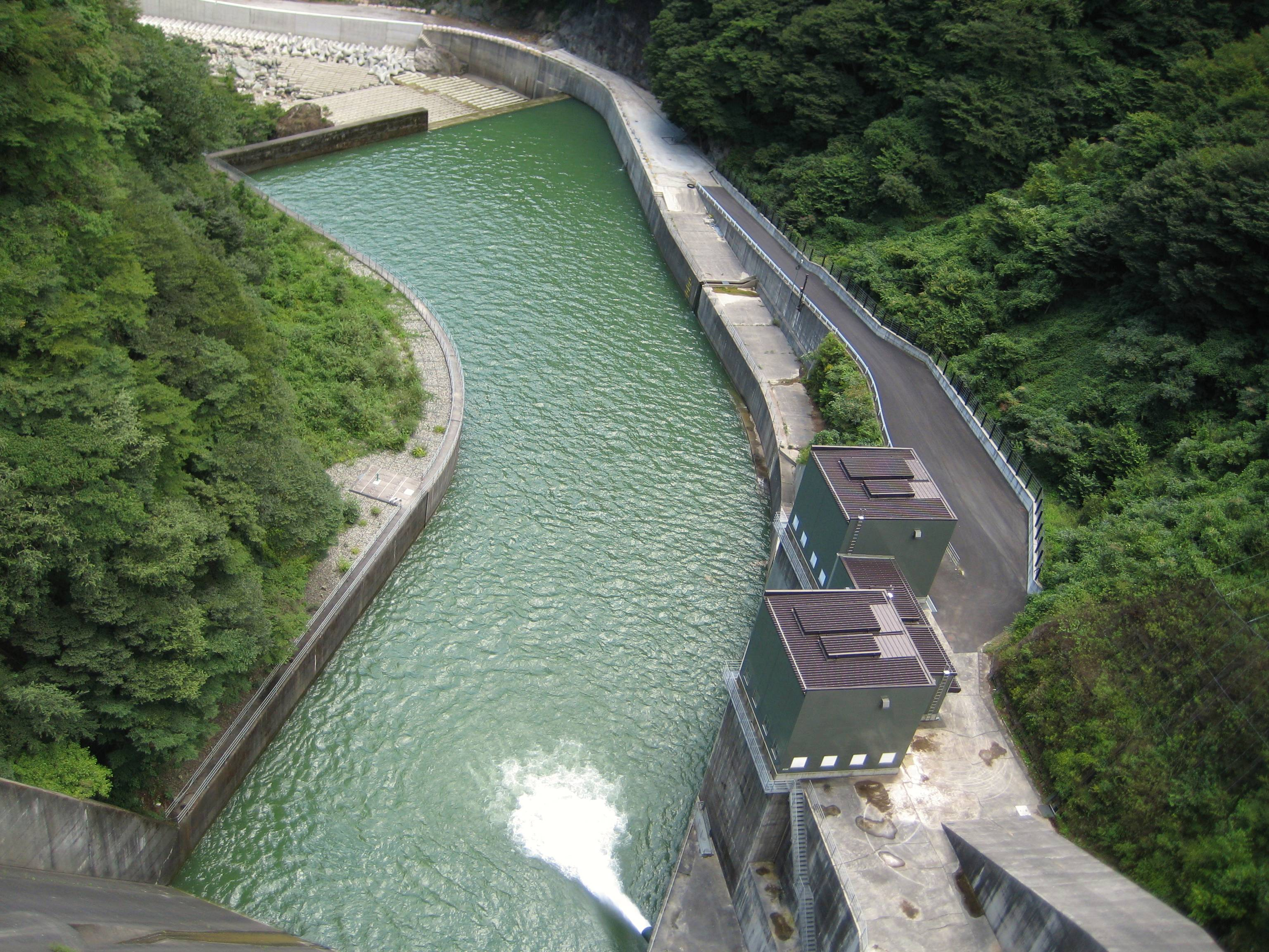 Ikari Dam added spillway.